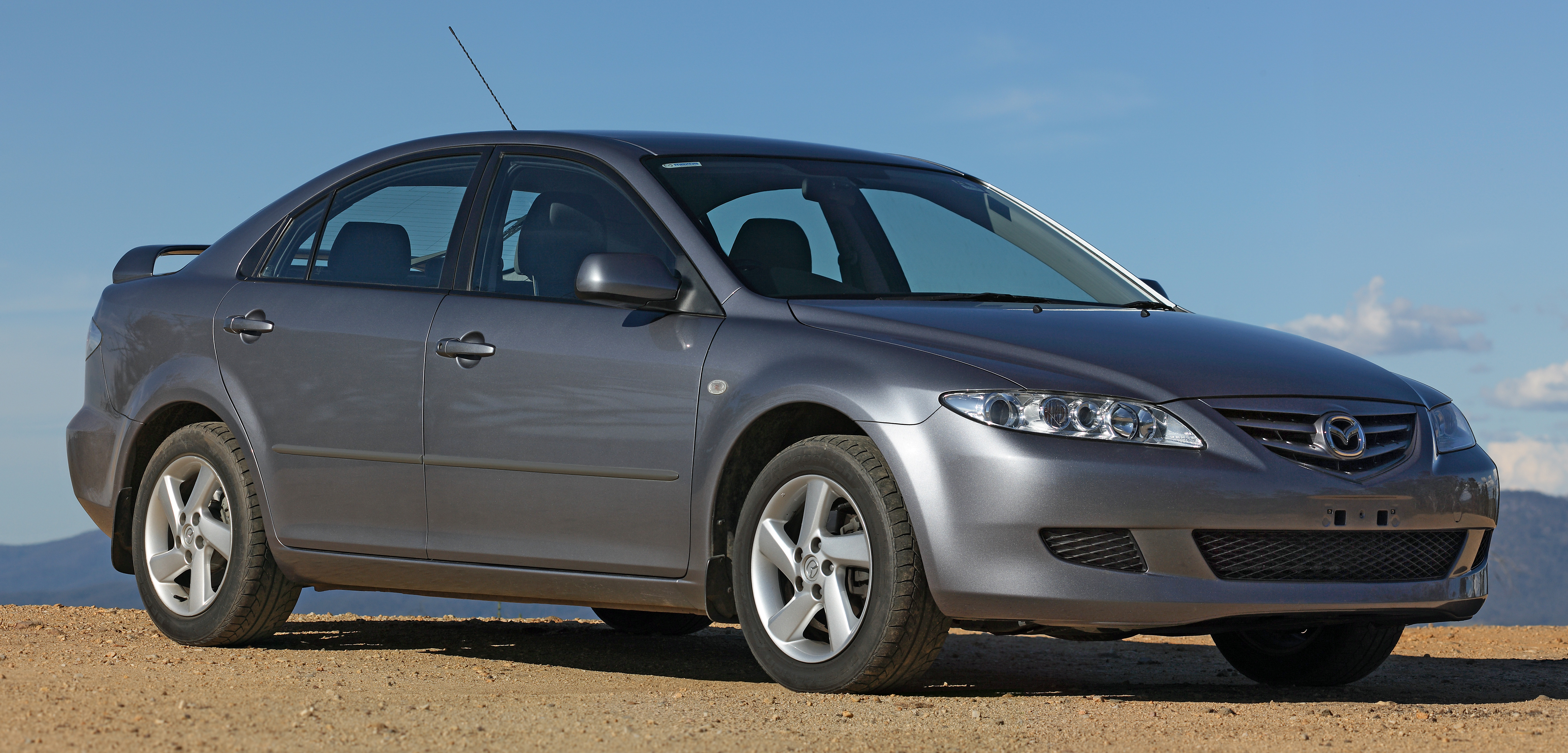 2003 Mazda 6 (GG) Classic hatchback in Titanium Grey, photographed at McMillan's Lookout, between Omeo and Benambra, Victoria, Australia. Camera data Camera Canon EOS 400D Lens Canon EF 100mm f/2.8 Macro Focal length 100 mm Aperture f/6.30 Exposure time 1/800 s Sensivity ISO 100 Composite stitched version of five original images using these settings. Cropped and brightened from original.